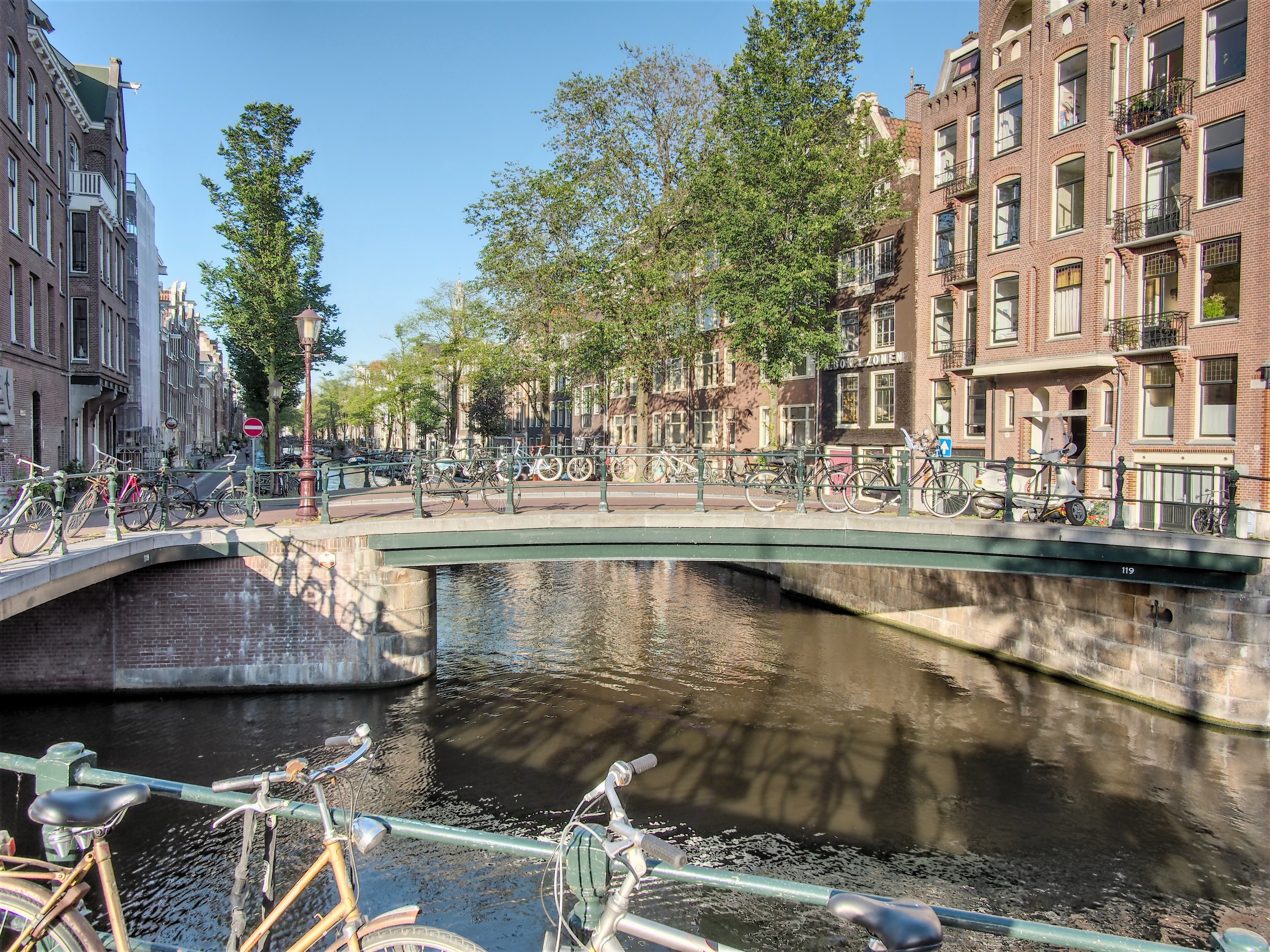 Photographed in Amsterdam, Brug 119.